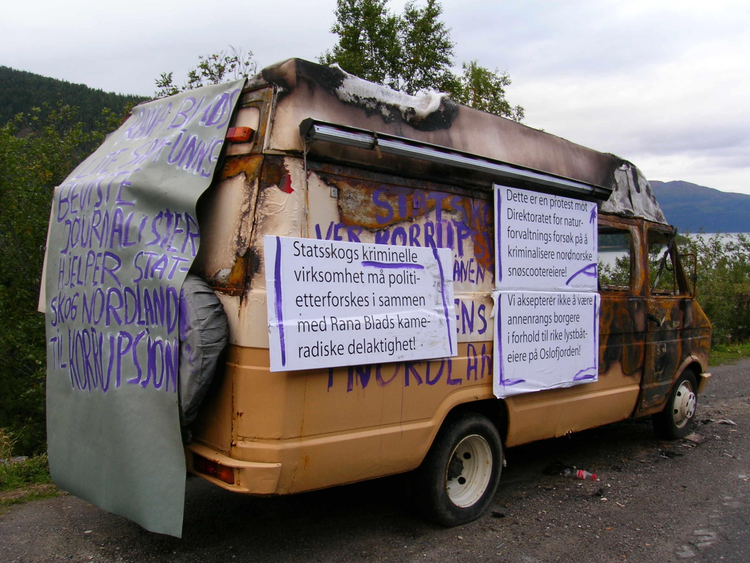 The car burned by Øystein Meier Johannesen, leader of Samfunnspartiet, on 6 September 2007 in Hemnes municipality, county of Nordland, Norway. Photo 9 September, 2007 with a Nikon Coolpix 5600 5,1 Megapixel camera.